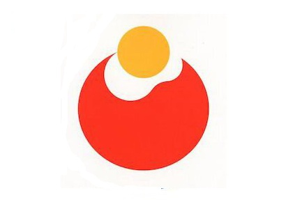 Flag of Unnann Shimane